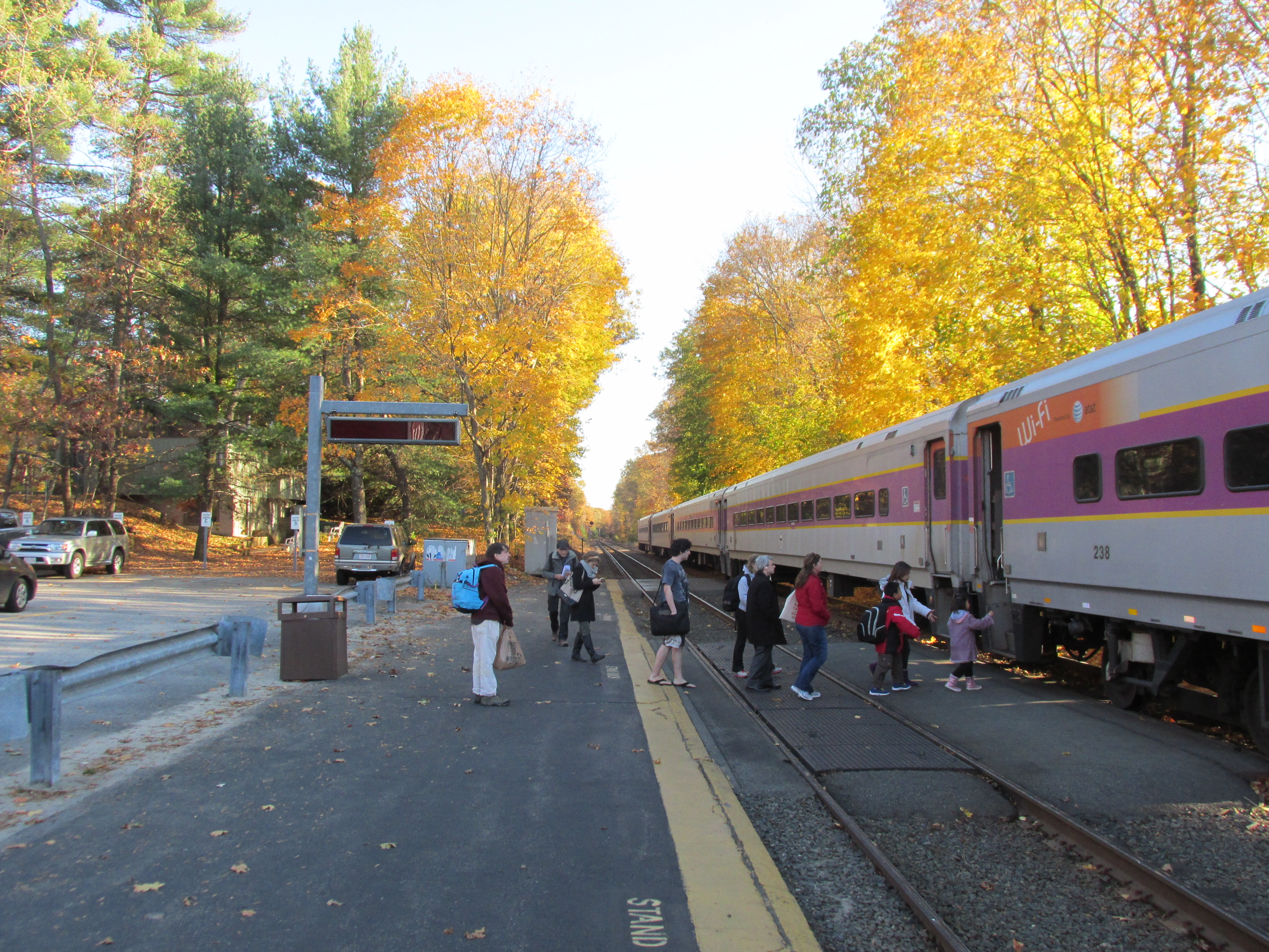 Boarding inbound train at Lincoln MBTA station, Lincoln Massachusetts - 2013